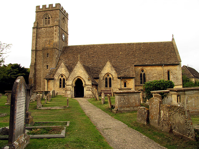 St Mary's at Hullavington. This square is mostly farmland but also contains the village of Hullavington. The church is in the southern half of the square.